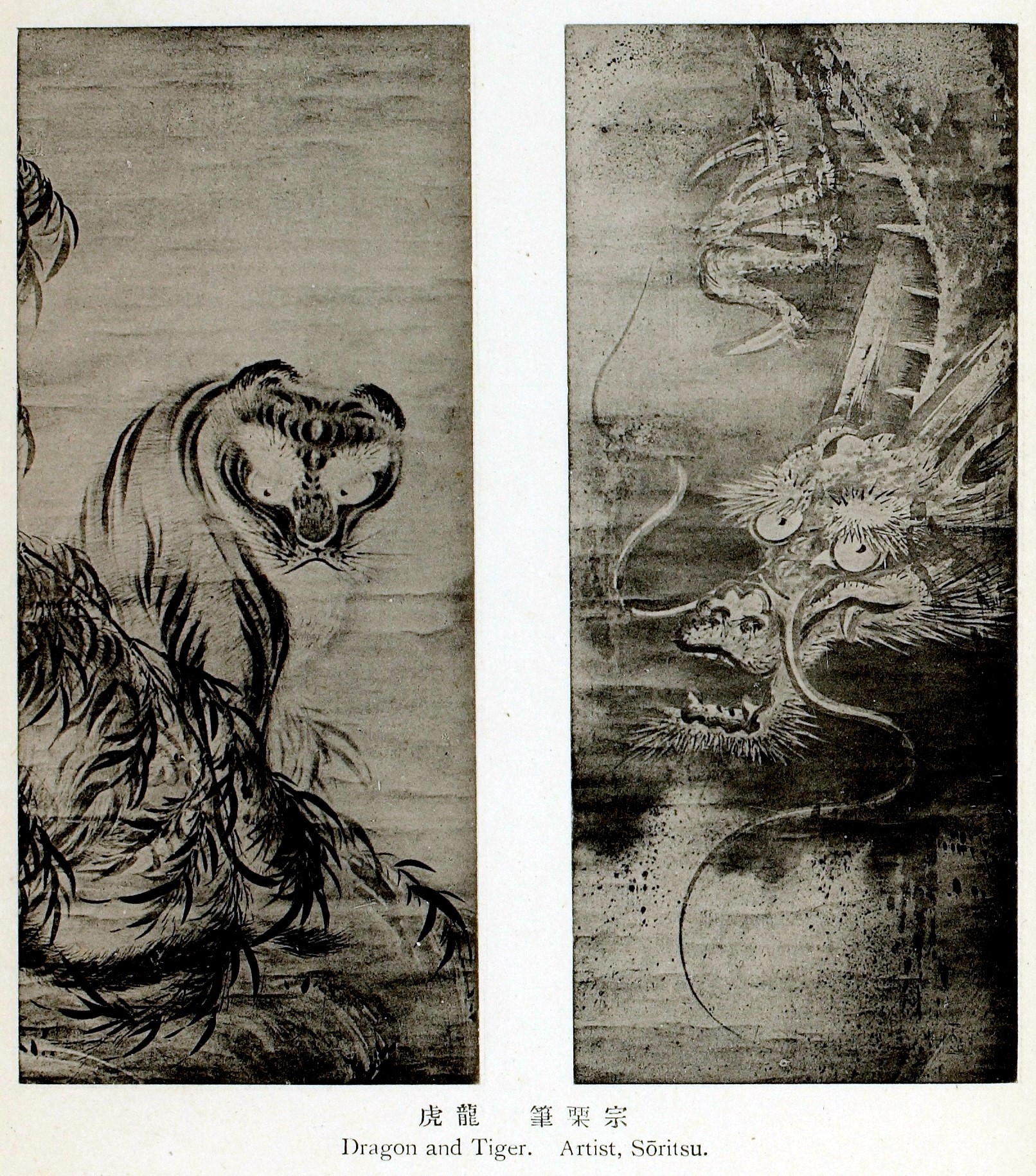 A pair of hanging rolls by Oguri Sōritsu (17th century)